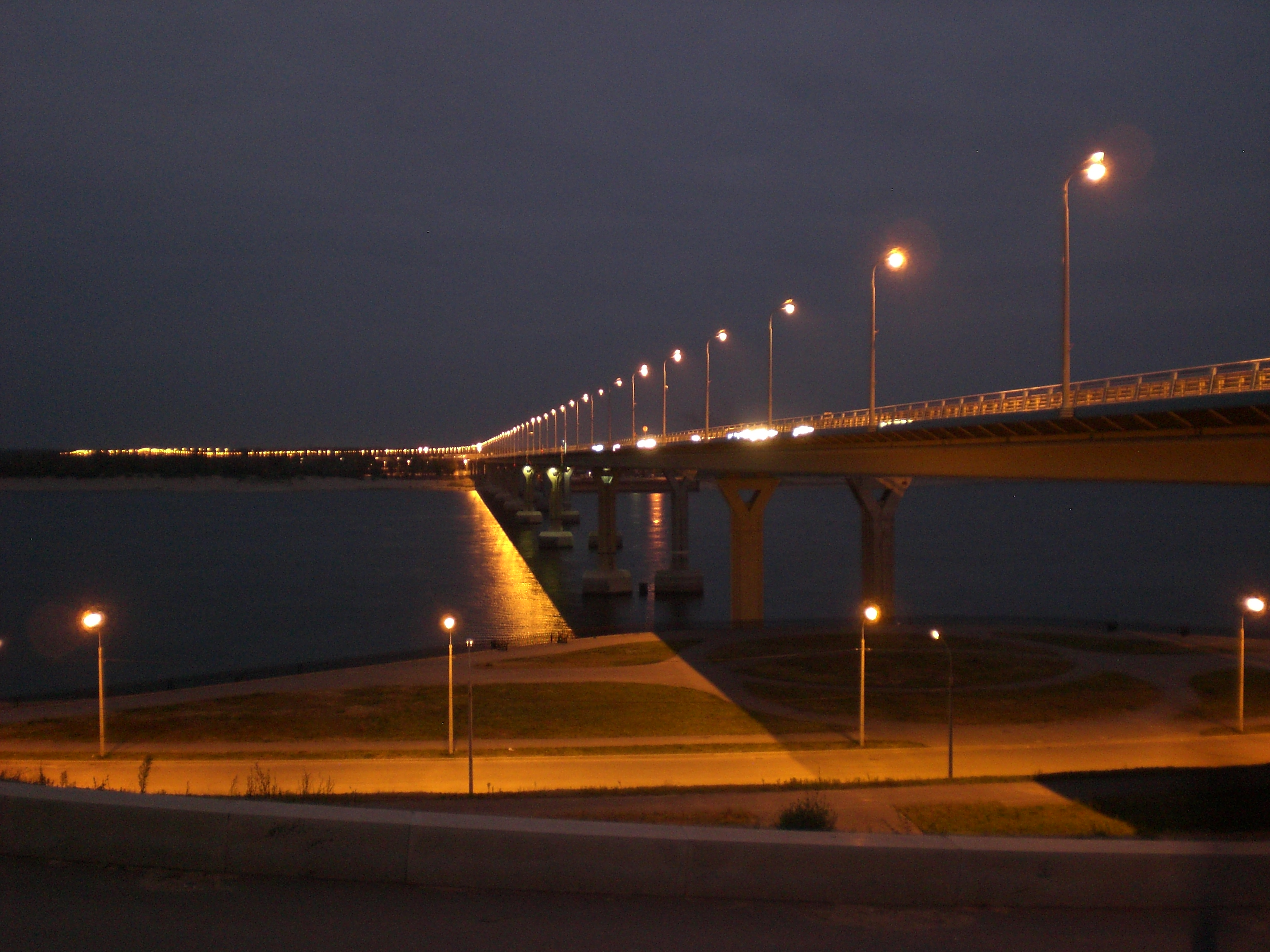 First construction section of the new bridge, which passes the Volga river at Volgograd. Later will be three lanes in each direction. At the moment, there is only one lane in each direction.